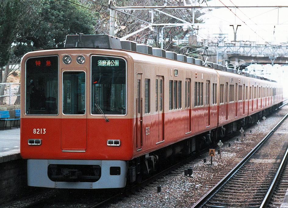 Hanshin 8000 series EMU at Sumaura-koen Station